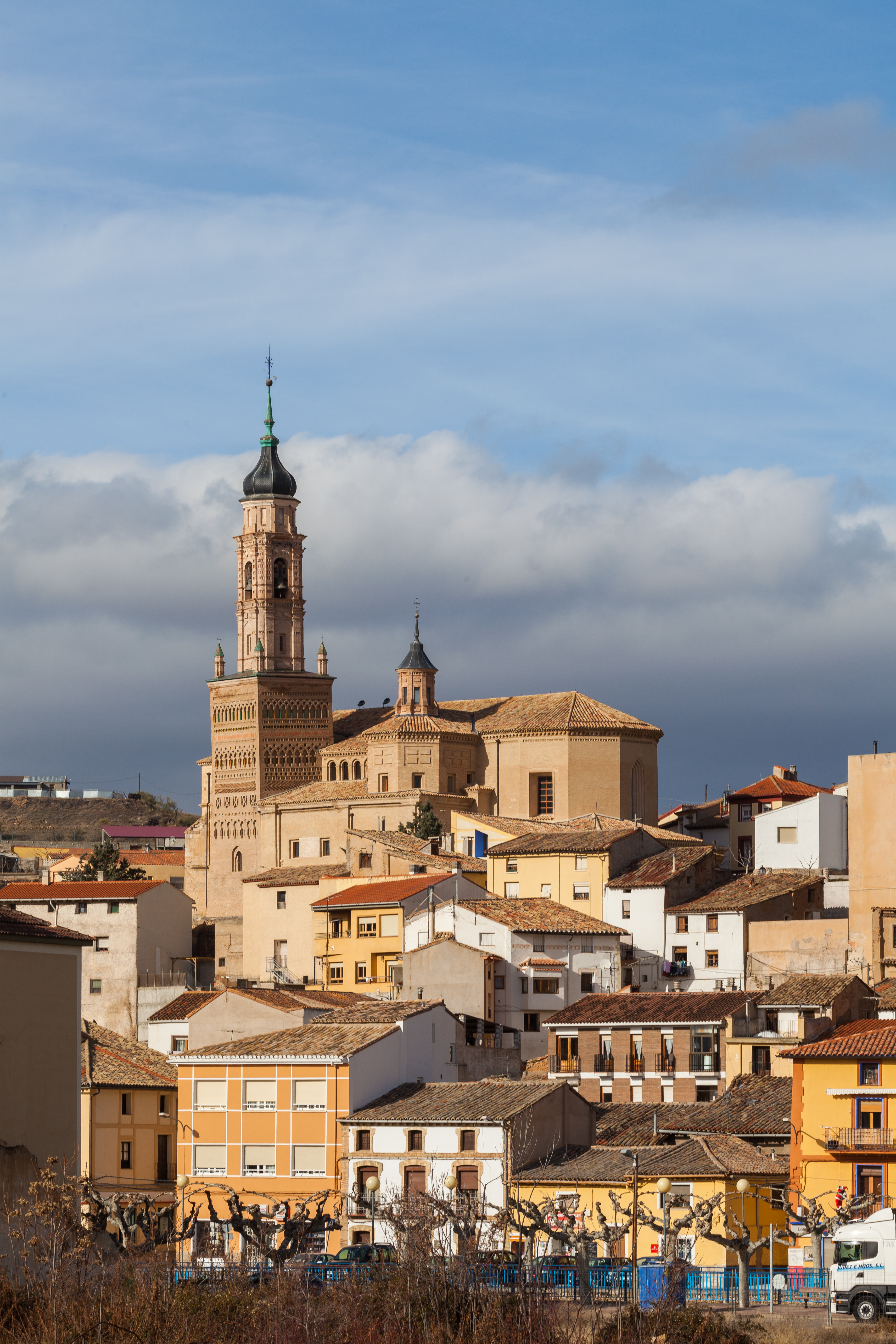 St Mary church, Ateca, Zaragoza, Spain